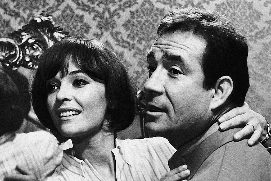 Actors Renée Longarini and Ugo Tognazzi during the 1967 film L'immorale.